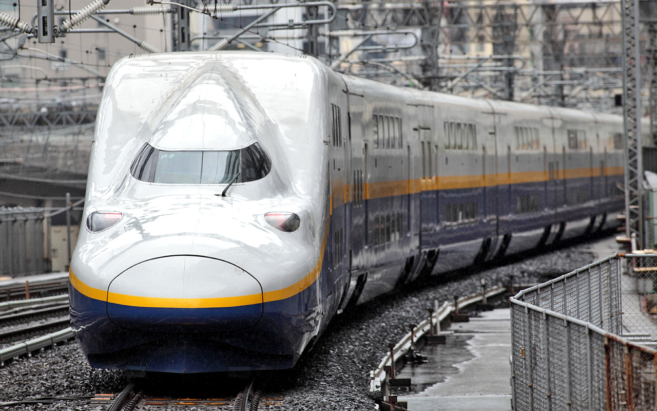 A JR East E4 series Shinkansen train departing from Tokyo Station